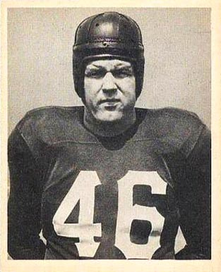 1948 Bowman football card of John Koniszewski of the Washington Redskins #24. PD-not-renewed.